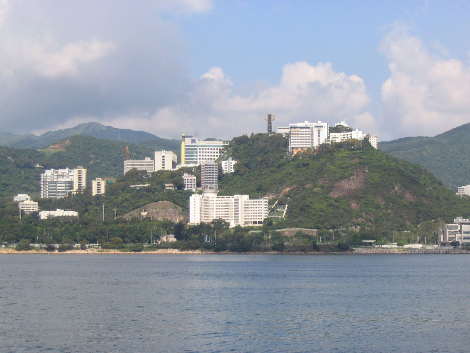 香港中文大學 The Chinese University of Hong Kong